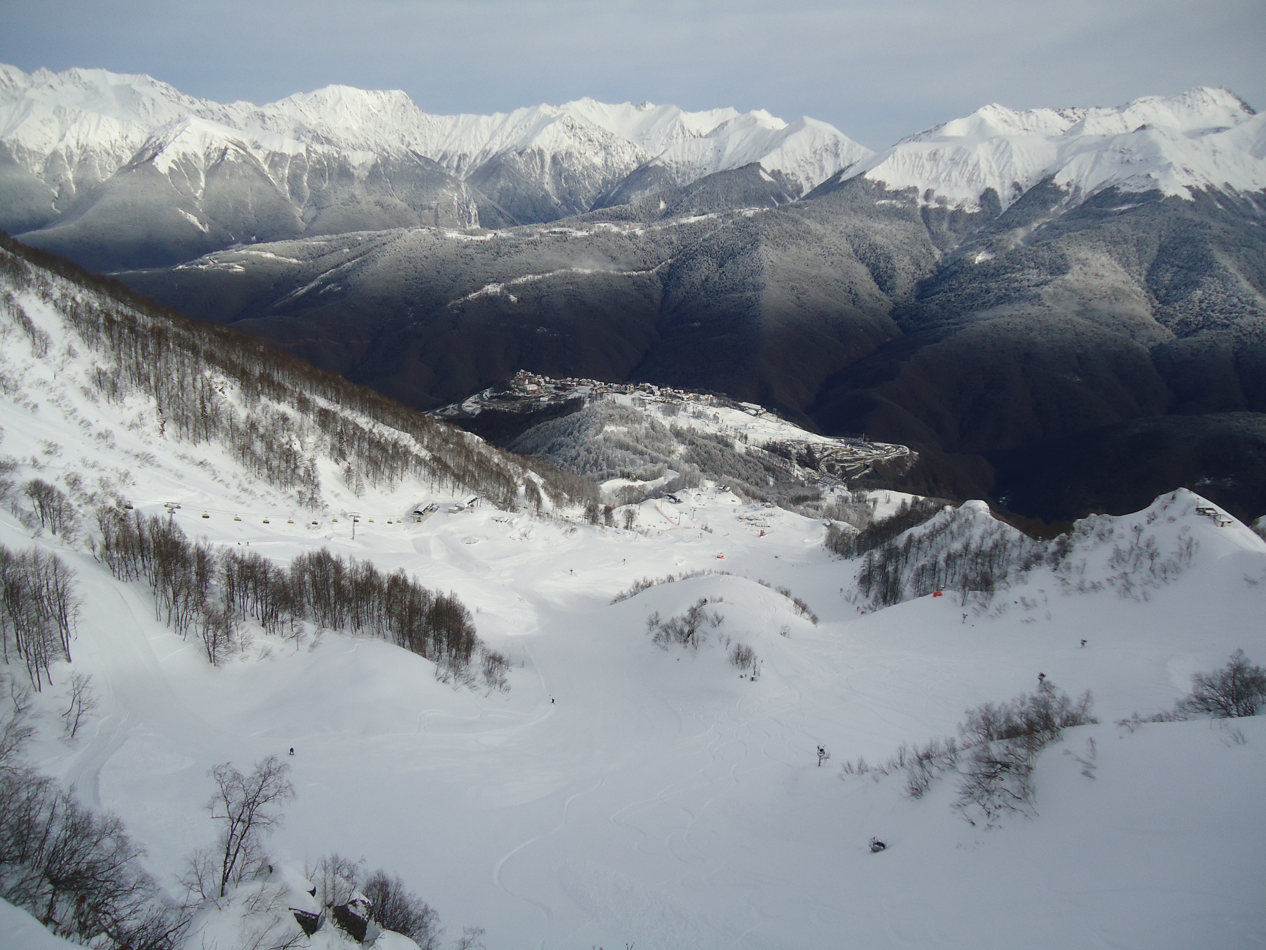 Ski area resort Rosa Khutor in Krasnaya Polyana near Sochi. February 2014/